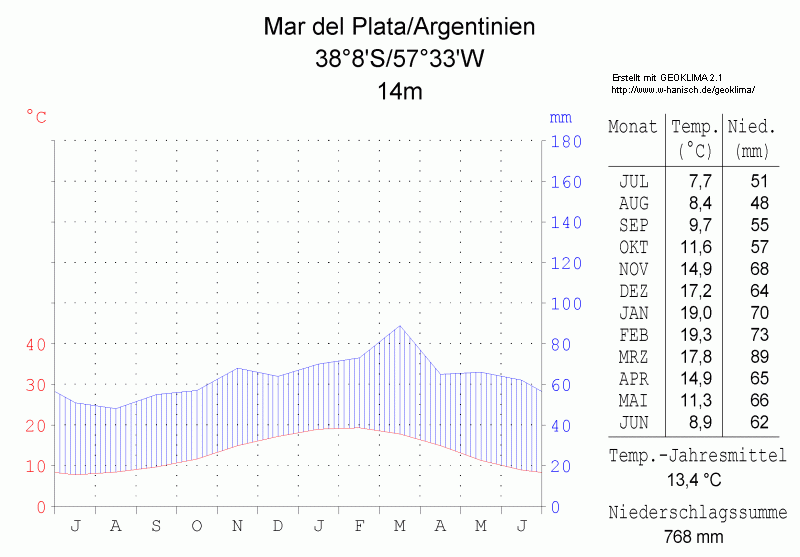 climate chart in the format by Walther and Lieth